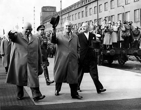 Chairman of the Soviet Communist Party Nikita Khrushchev and Prime Minister Nikolai Bulganin on the Helsinki railway station in June, 1957. To the right Finland's Prime Minister V. J. Sukselainen.